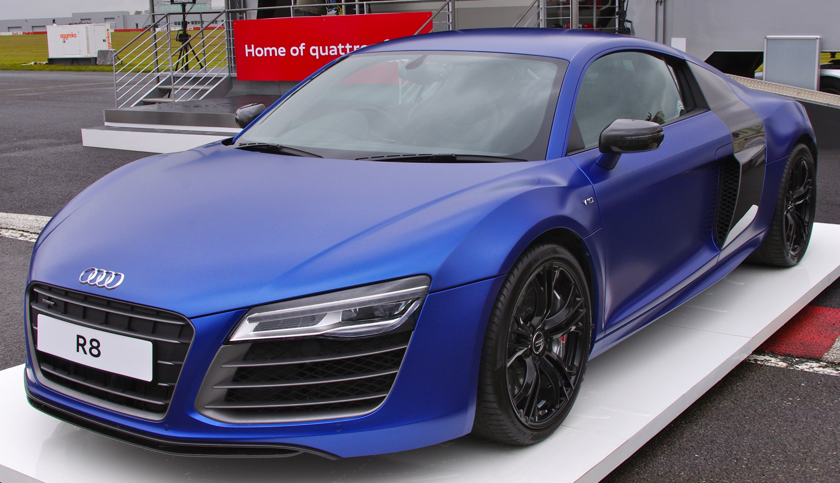 Silverstone 6 Hours 2013 FIA World Endurance Championship (WEC)